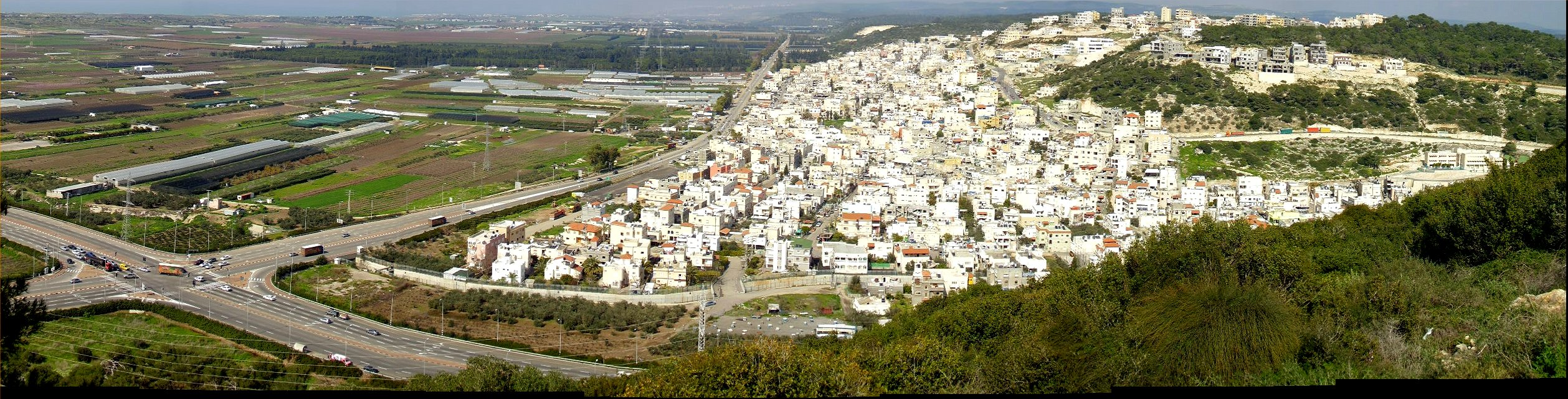 The village Faradis, and the Faradis junction on road 4, Israel; view from south, from Givat Eden in Zikhron Ya'aqov